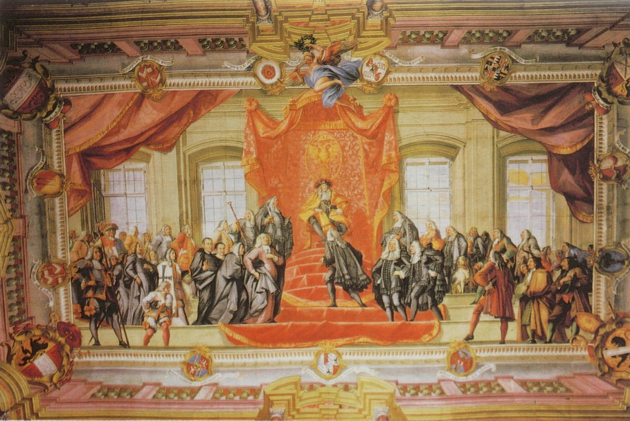 Fresco in Großer Wappensaal, Landhaus Klagenfurt, ceiling. Homage to Emperor Karl VI. by the Nobles of Carinthia